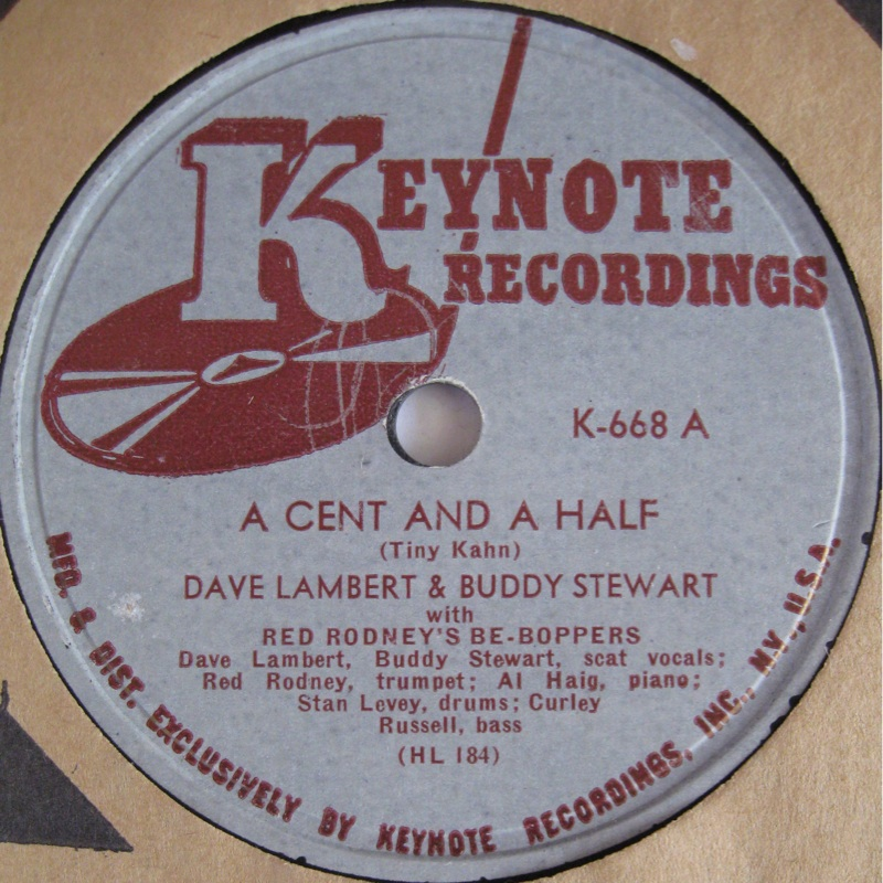 Dave Lambert/Buddy Stewart: A Cent and a half, with Red Rodney & His Beboppers, Al Haig, Stan Levey